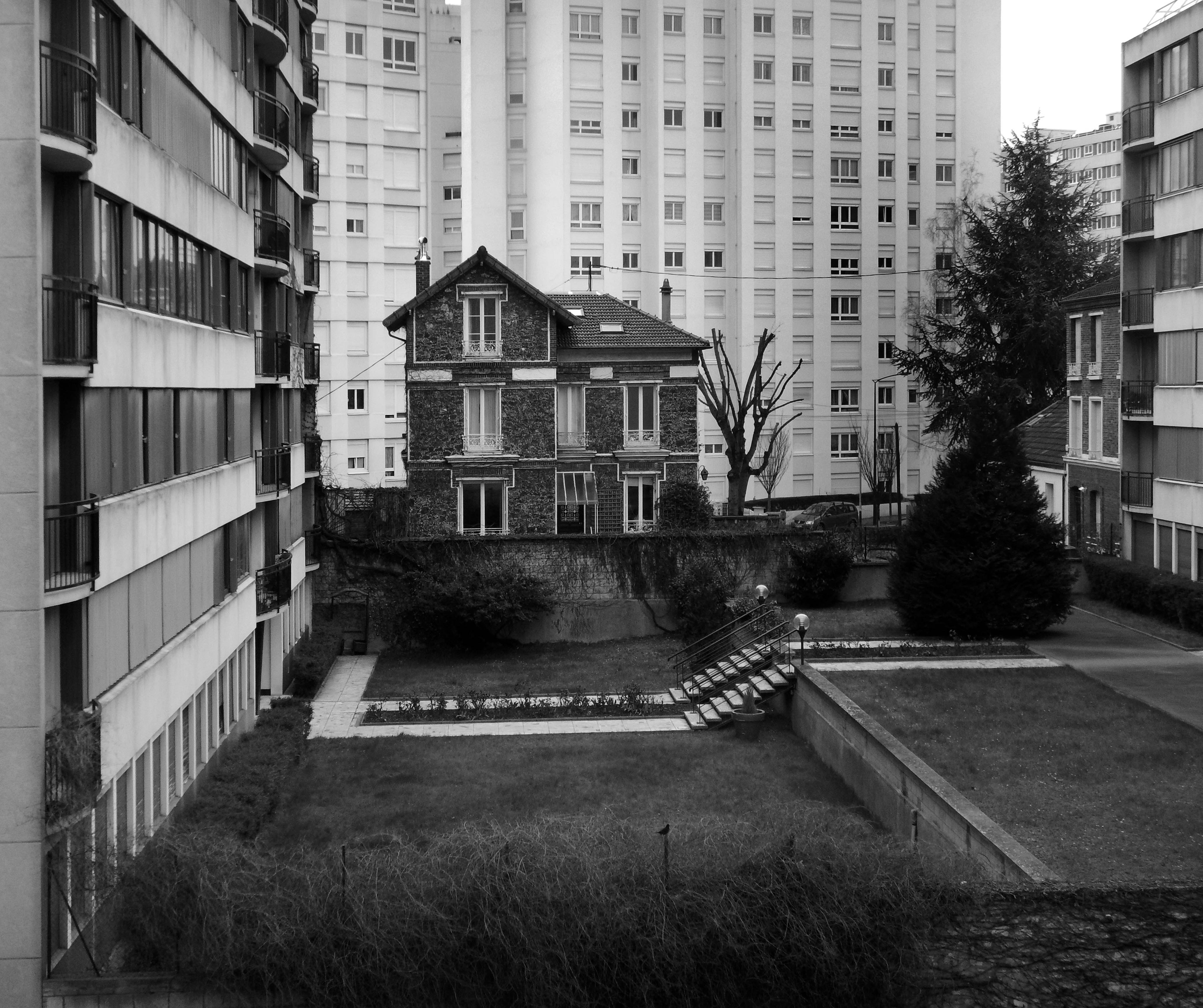 Old small house isolated by tall buildings in an urban context of Paris suburbanization, near the Pasteur Avenue, in the city of Vanves, French town of department of Hauts-de-Seine in region Île-de-France, located in the southwest of Paris near the ring road, photographed in March 2016.